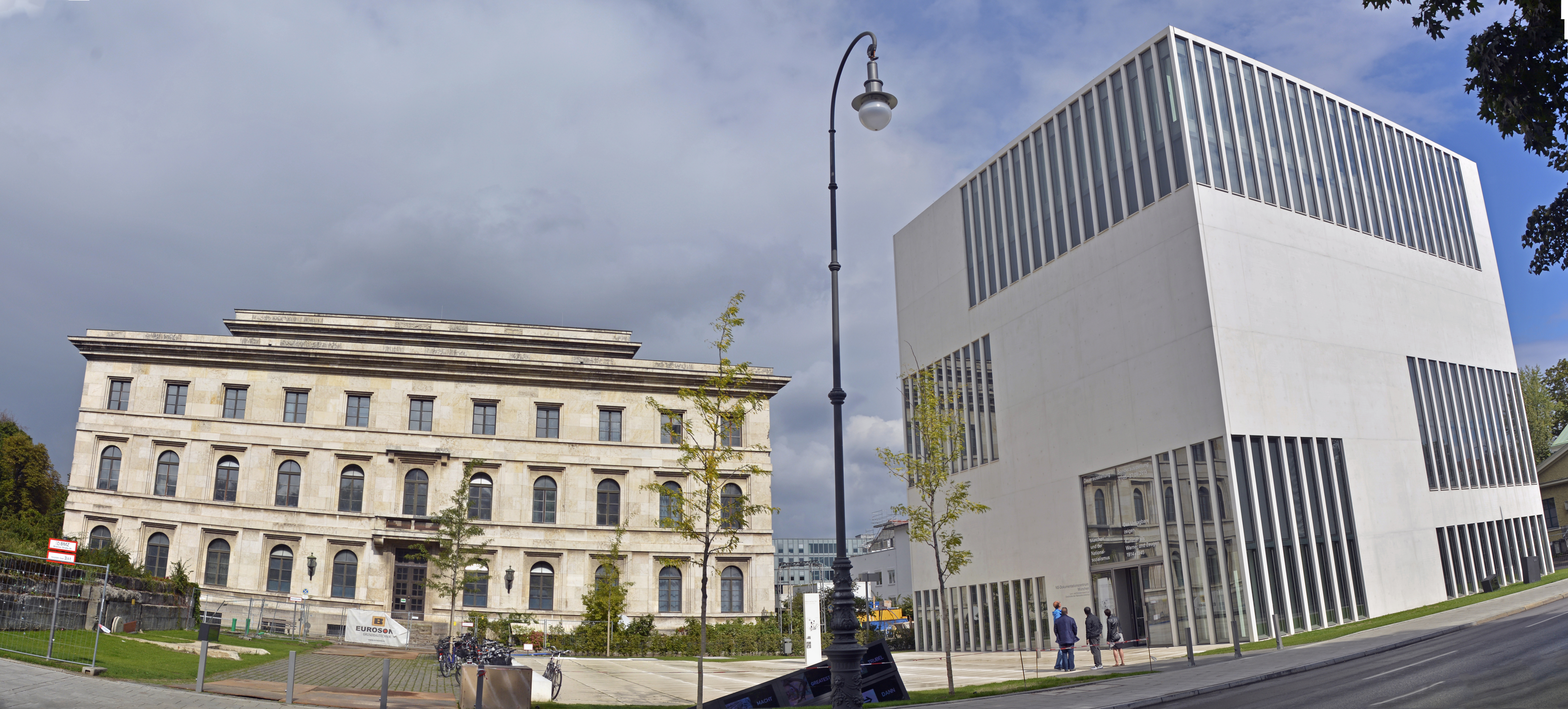 NS-Center of Documentation Munich and Fuehrerbau (today: University of Art and Music, Munich) (Panorama)